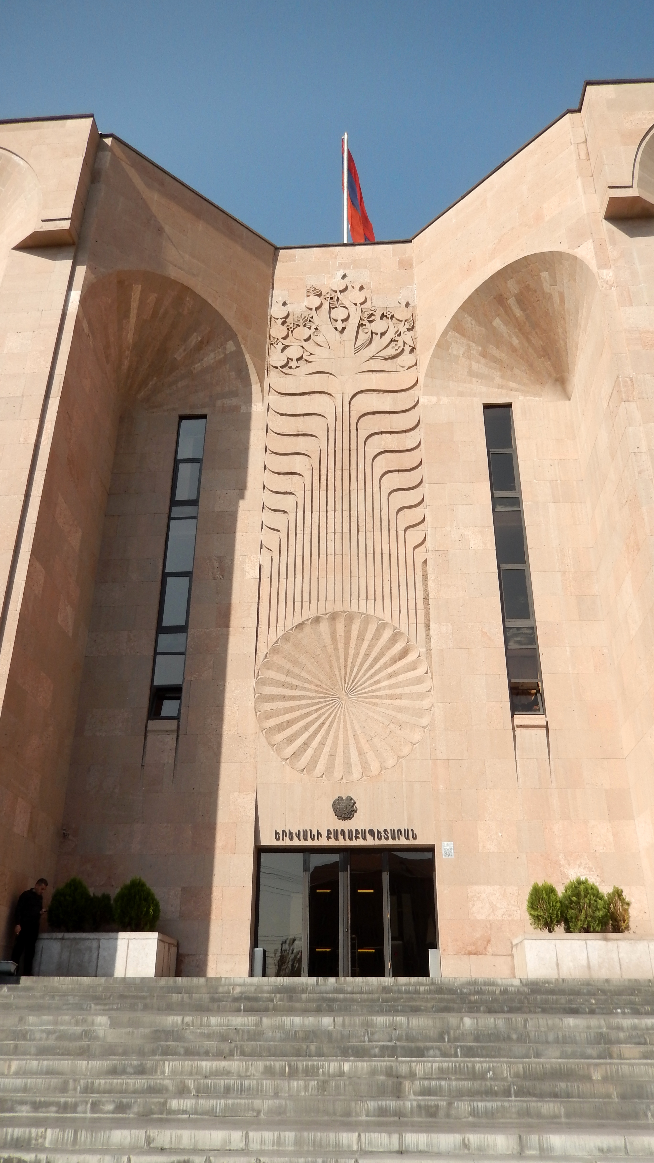 Yerevan City Hall